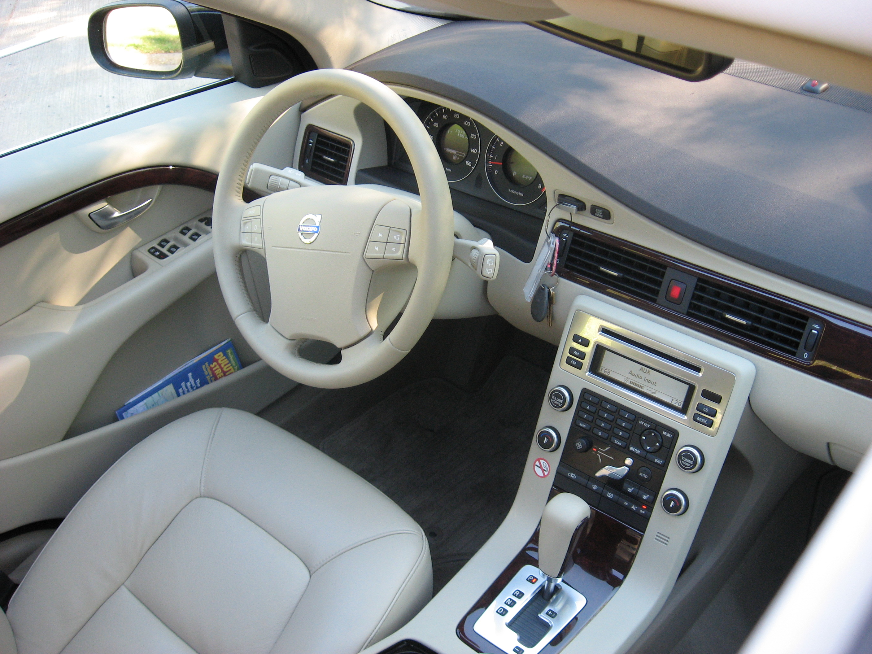 2008 Volvo V70